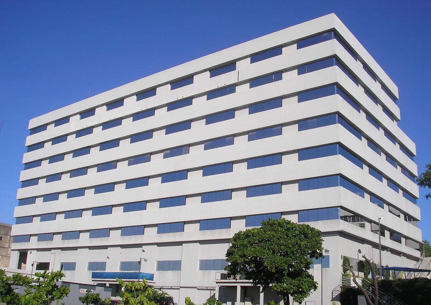 Edificio del Centro Médico La Costa de Asunción.